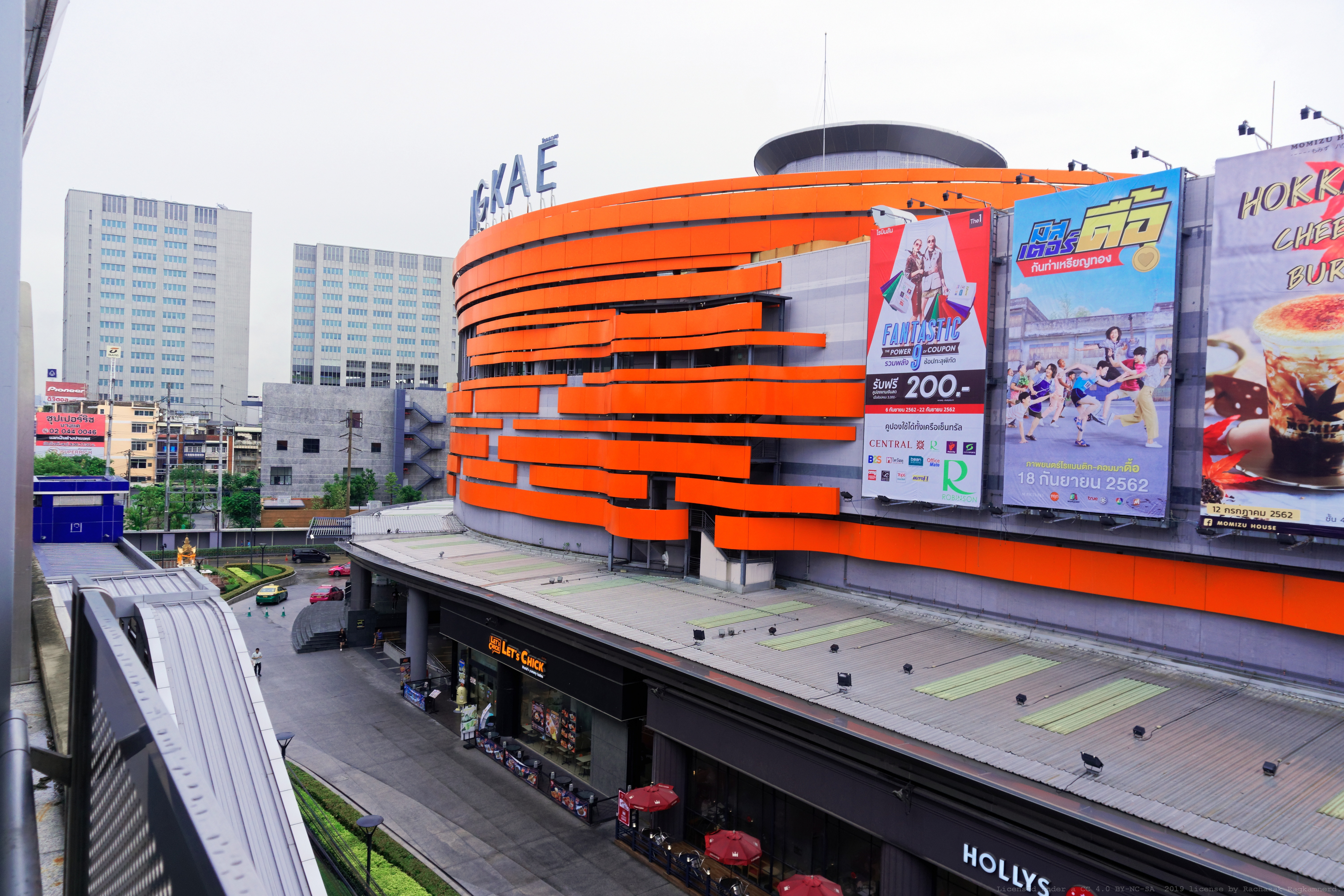 MRT Phasi Charoen station: Seacon Bangkae. View from the station's platform